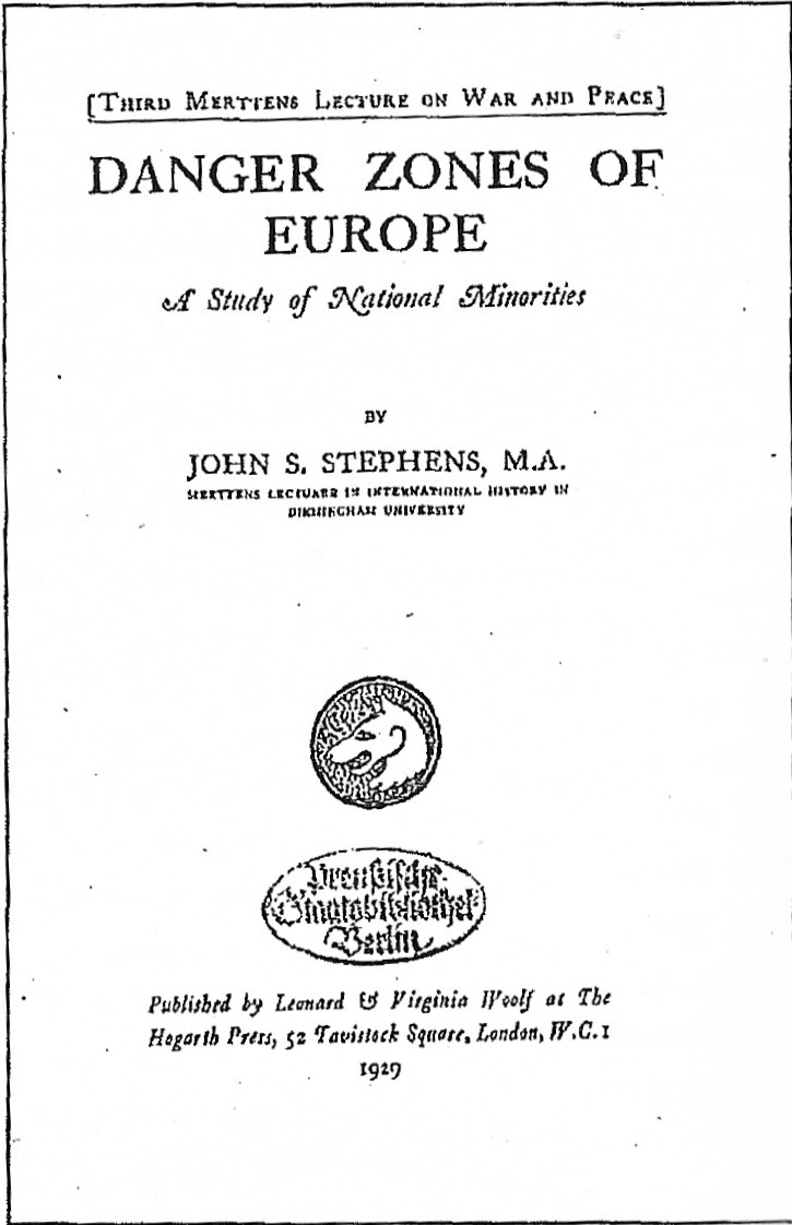 John Sturge Stephens's Danger Zones from 1929 Frontispiece